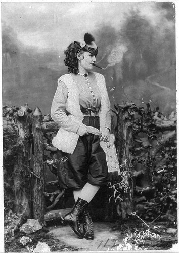 Lotta Crabtree. A true San Francisco character.